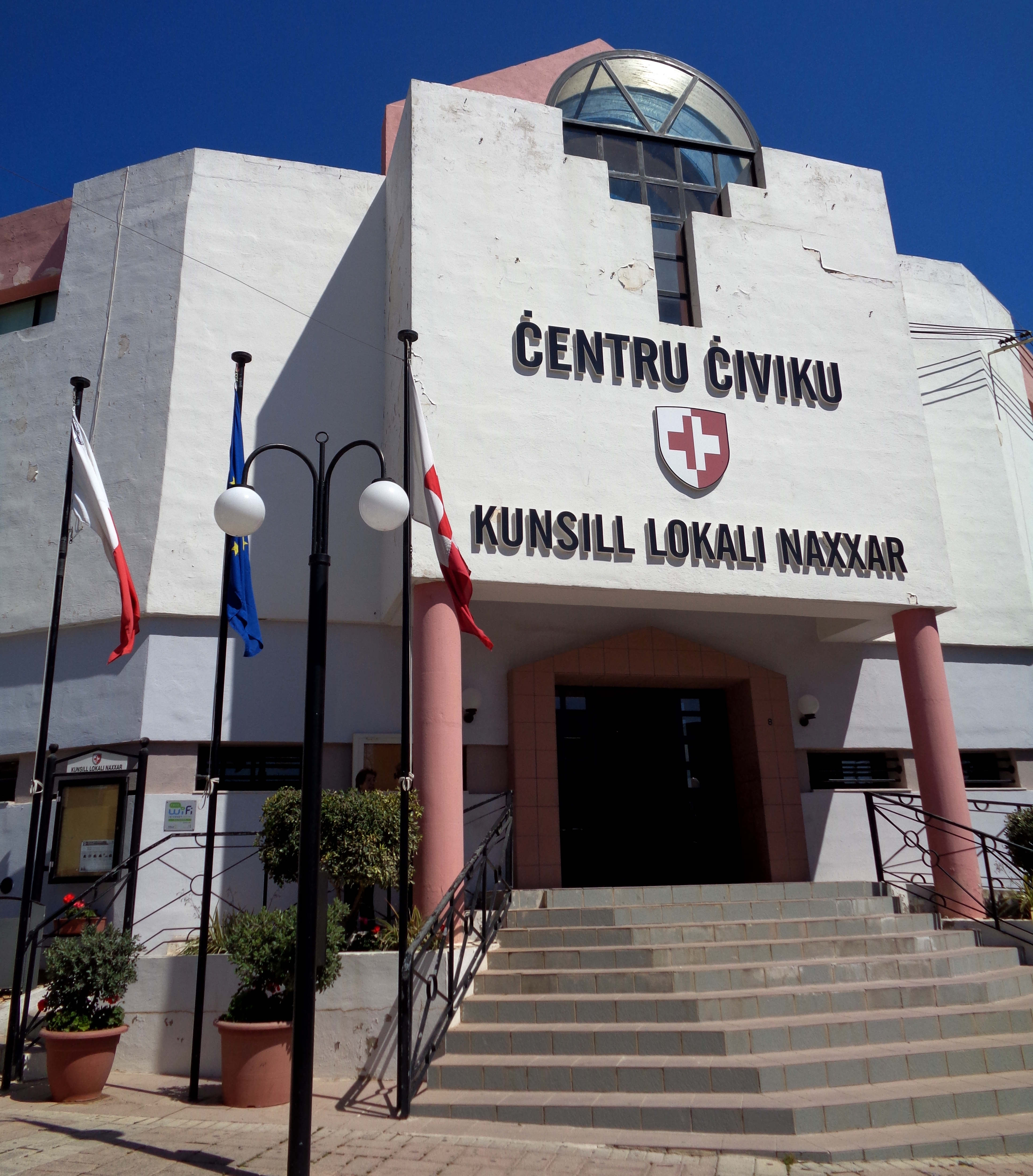 Naxxar Local Council, Civil Centre Malti: Il-Kunsill Lokali tan-Naxxar, Ċentru Ċiviku